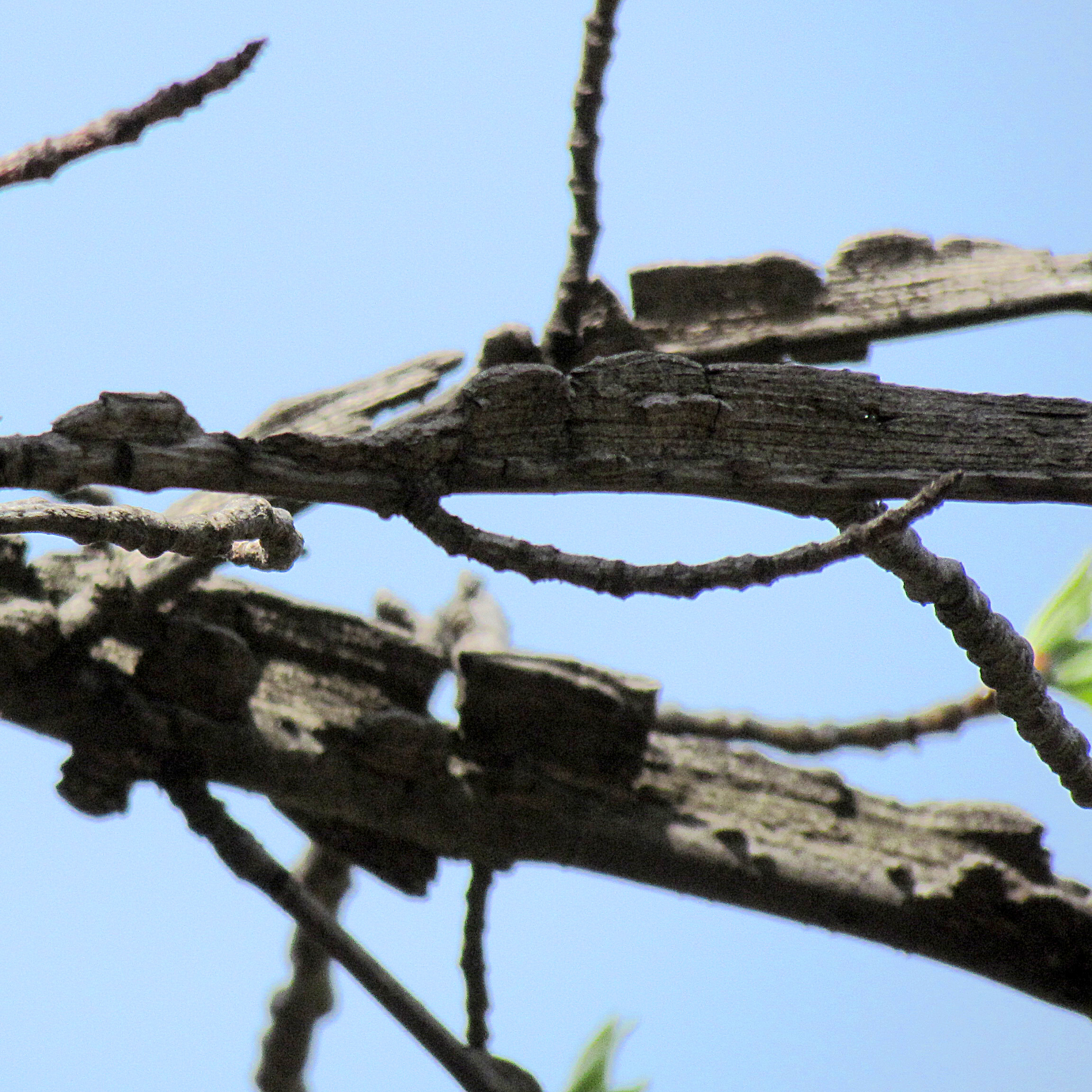 Liquidambar styraciflua twigs